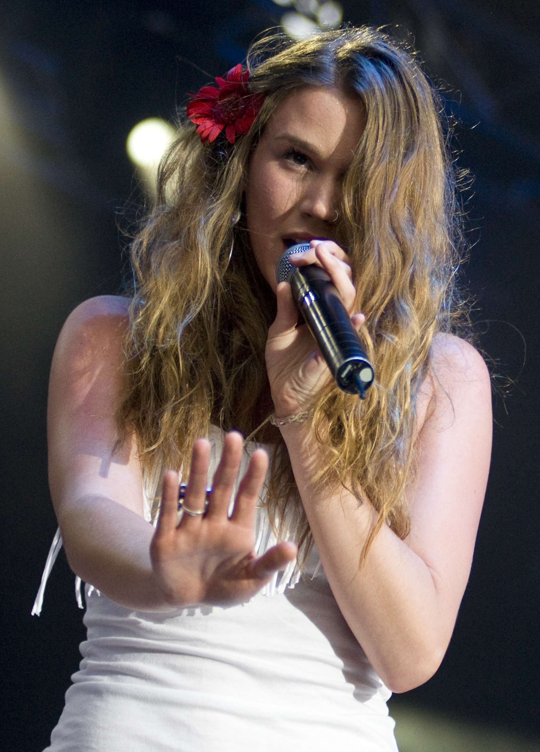 Joss Stone at Stockholm jazz fest, 19th July, 2009.